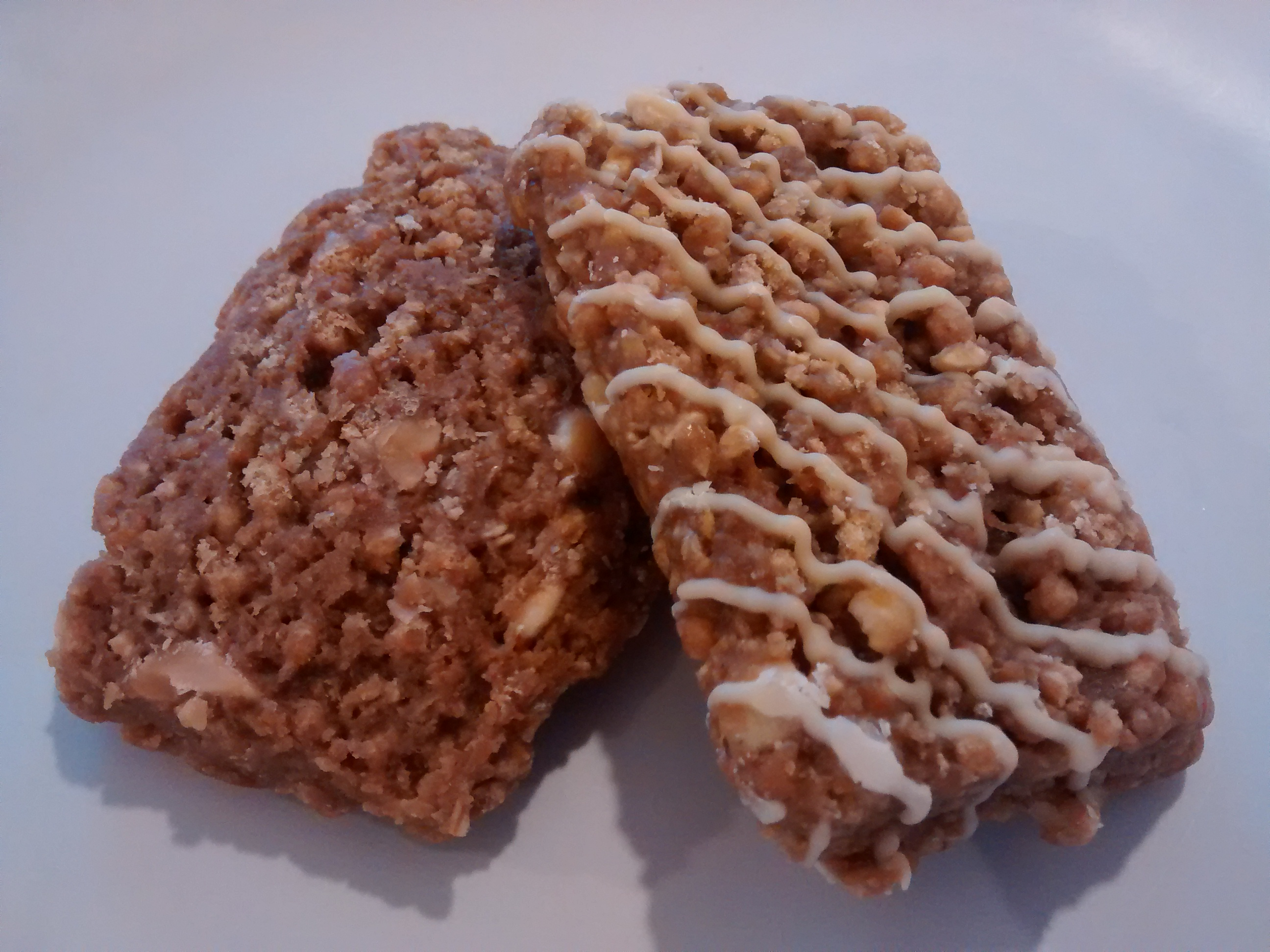 Two Clif Bars. The one on the left is Crunchy Peanut Butter flavored and the one on the right is White Chocolate Macadamia Nut flavored.